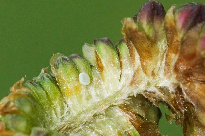 Egg (ova) of the scarce large blue